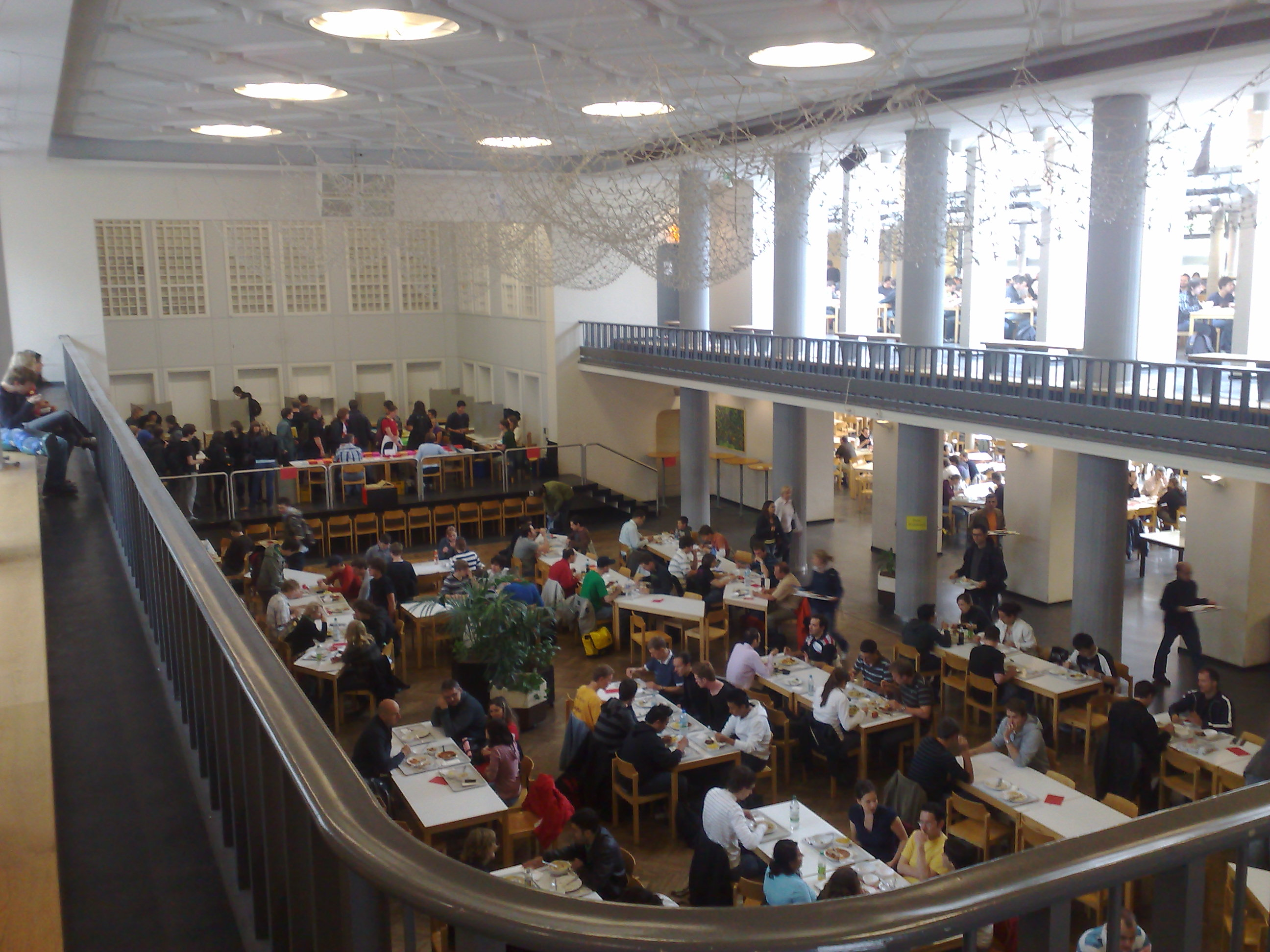 "Otto-Berndt-Halle", TU Darmstadt, Darmstadt, Germany